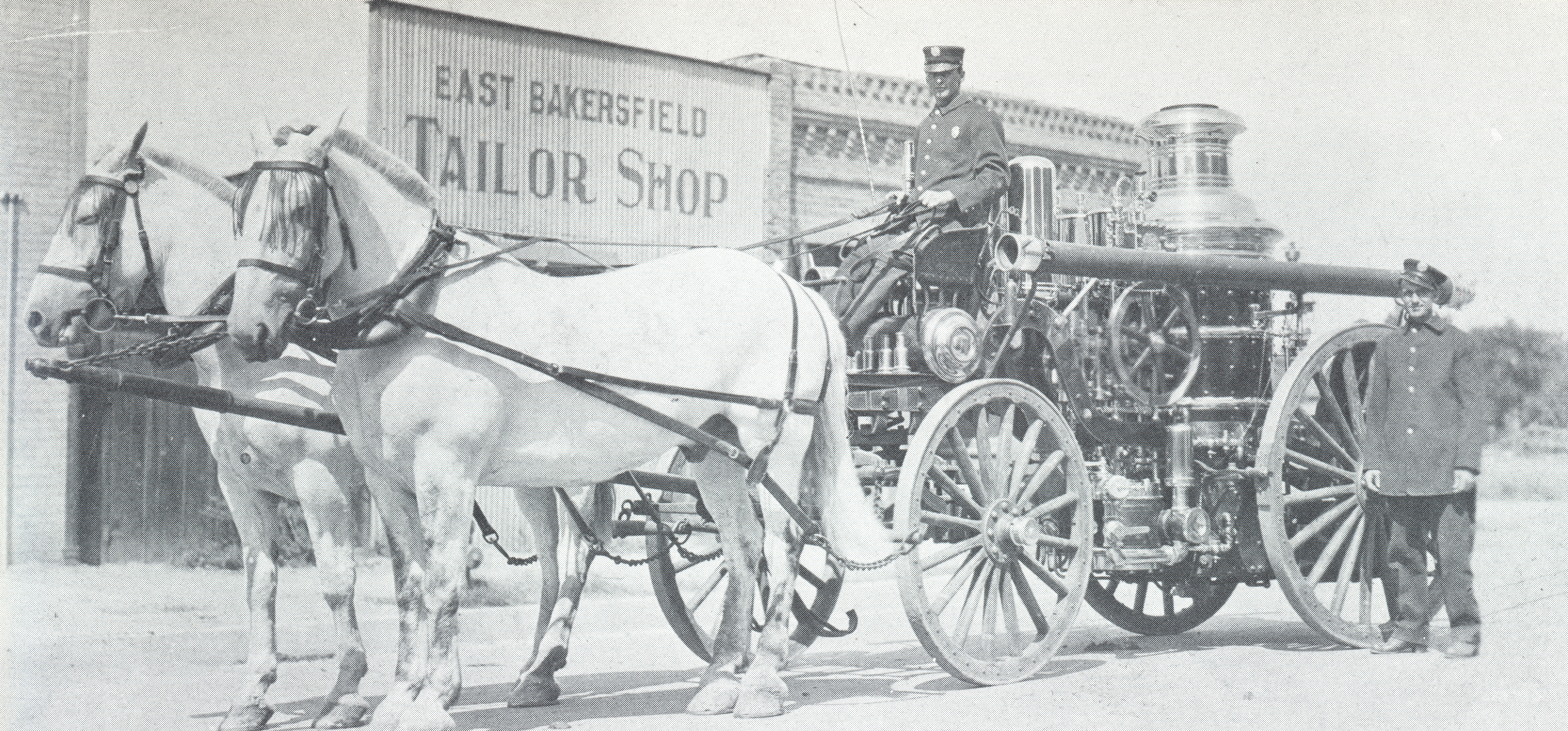 BFD Engine 1